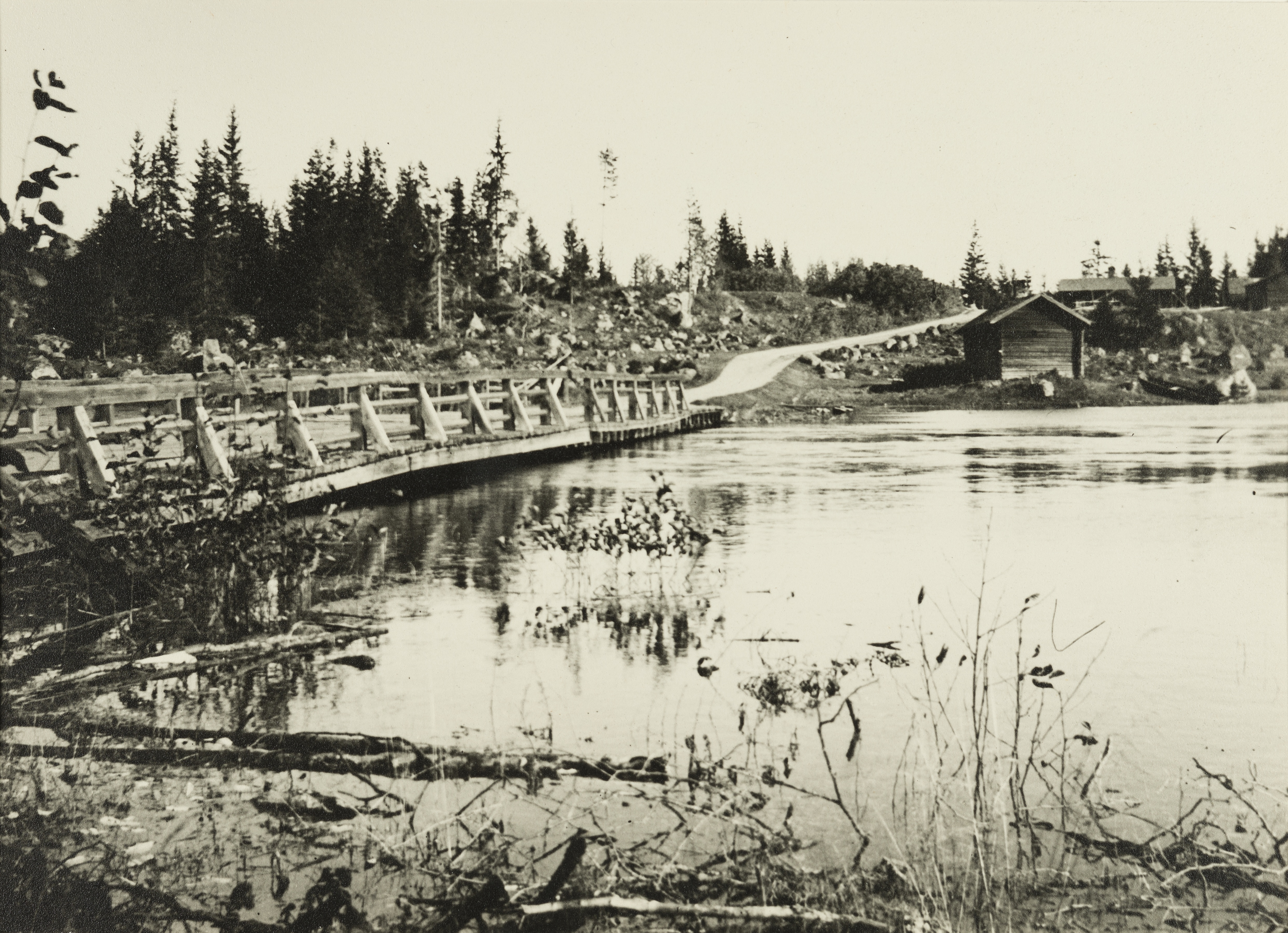 The repaired Rajasilta ("Border Bridge") crossing the Kymi River in Pyhtää, Finland. Image taken after the 1918 Finnish Civil War Battle of Ahvenkoski.